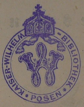 Kaiser Wilhelm Bibliothek Poznan - stamp.